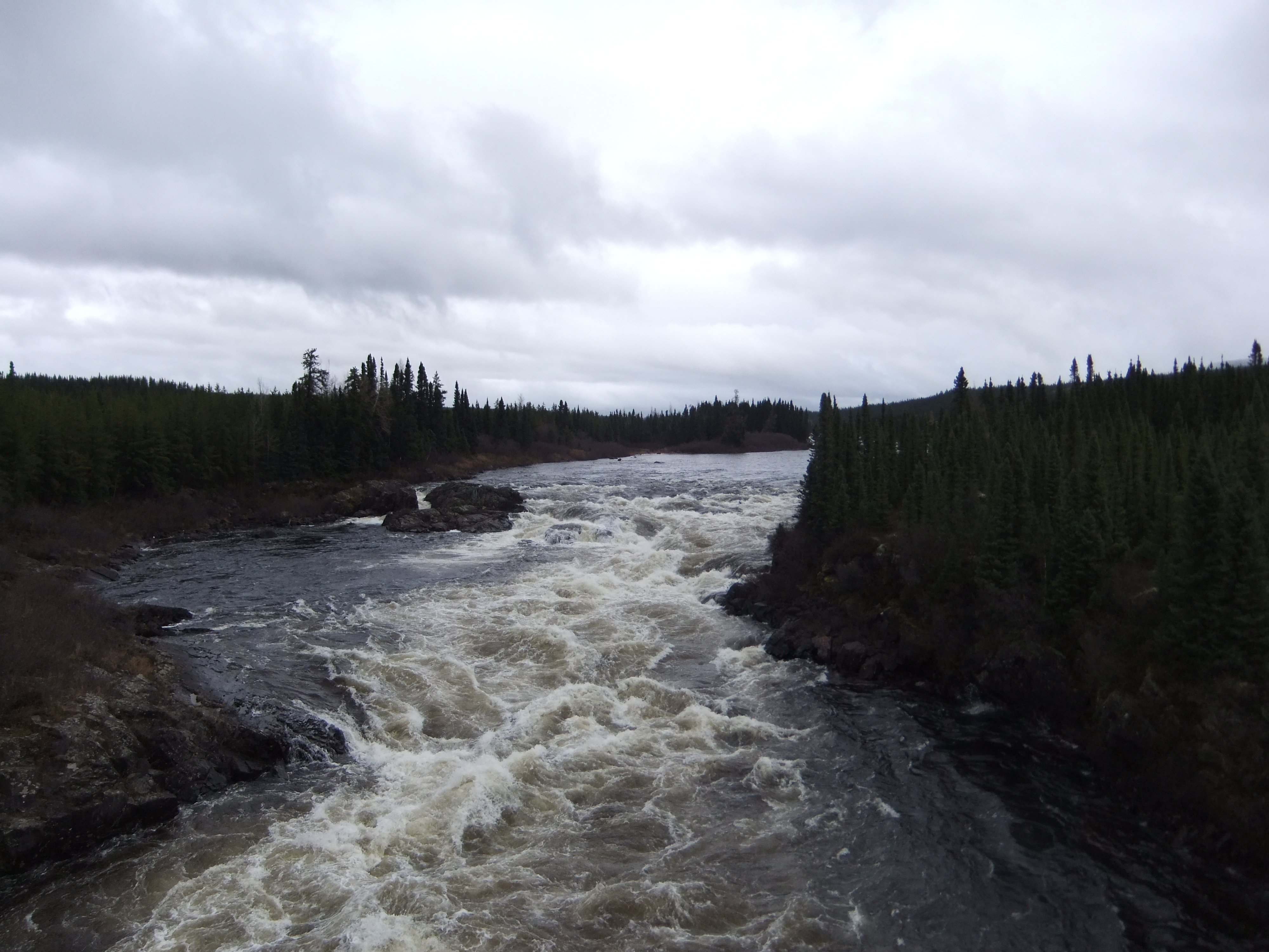 Hart Jaune river (Quebec, Canada) viewed from road 389